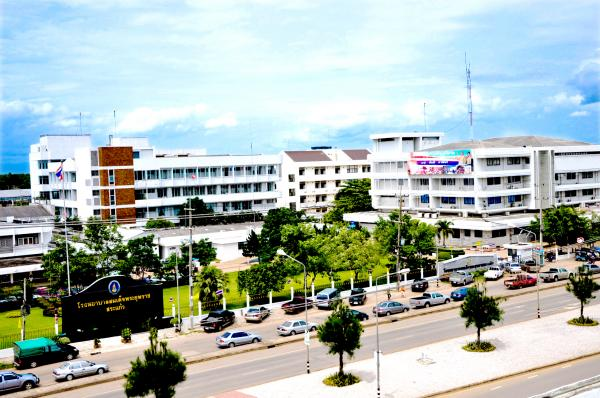 โรงพยาบาลสมเด็จพระยุพราชสระแก้ว ต.สระแก้ว อ.เมืองสระแก้ว จ.สระแก้ว